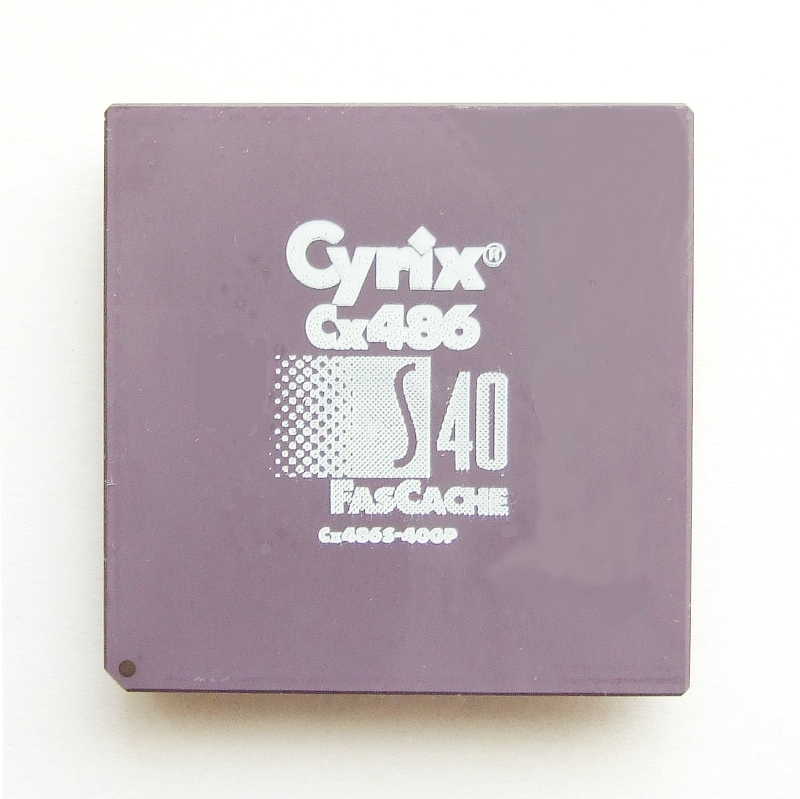 CPU Cyrix Cx486S FasCache without cooler